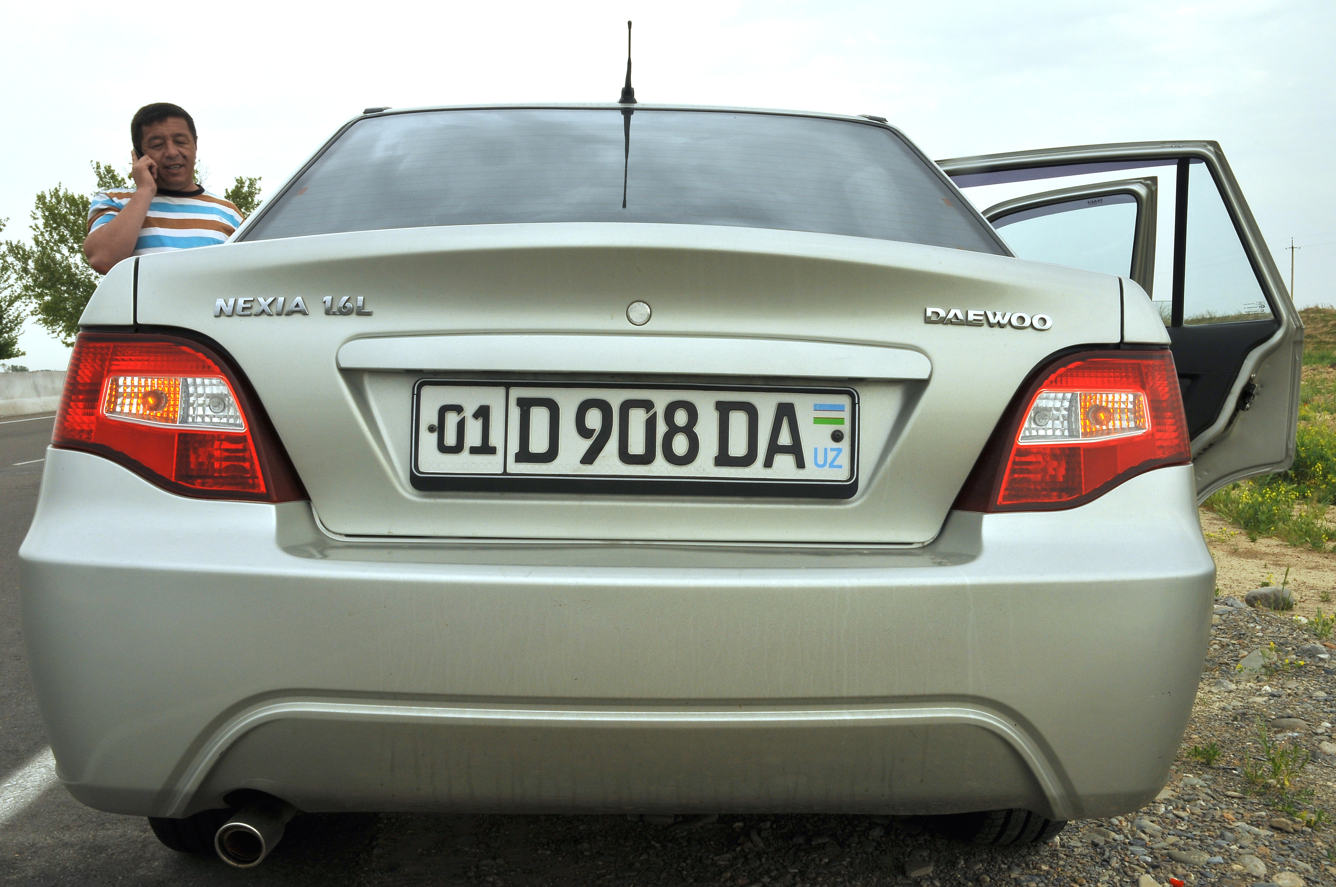 Rental car, with driver; Tashkent Region, Uzbekistan